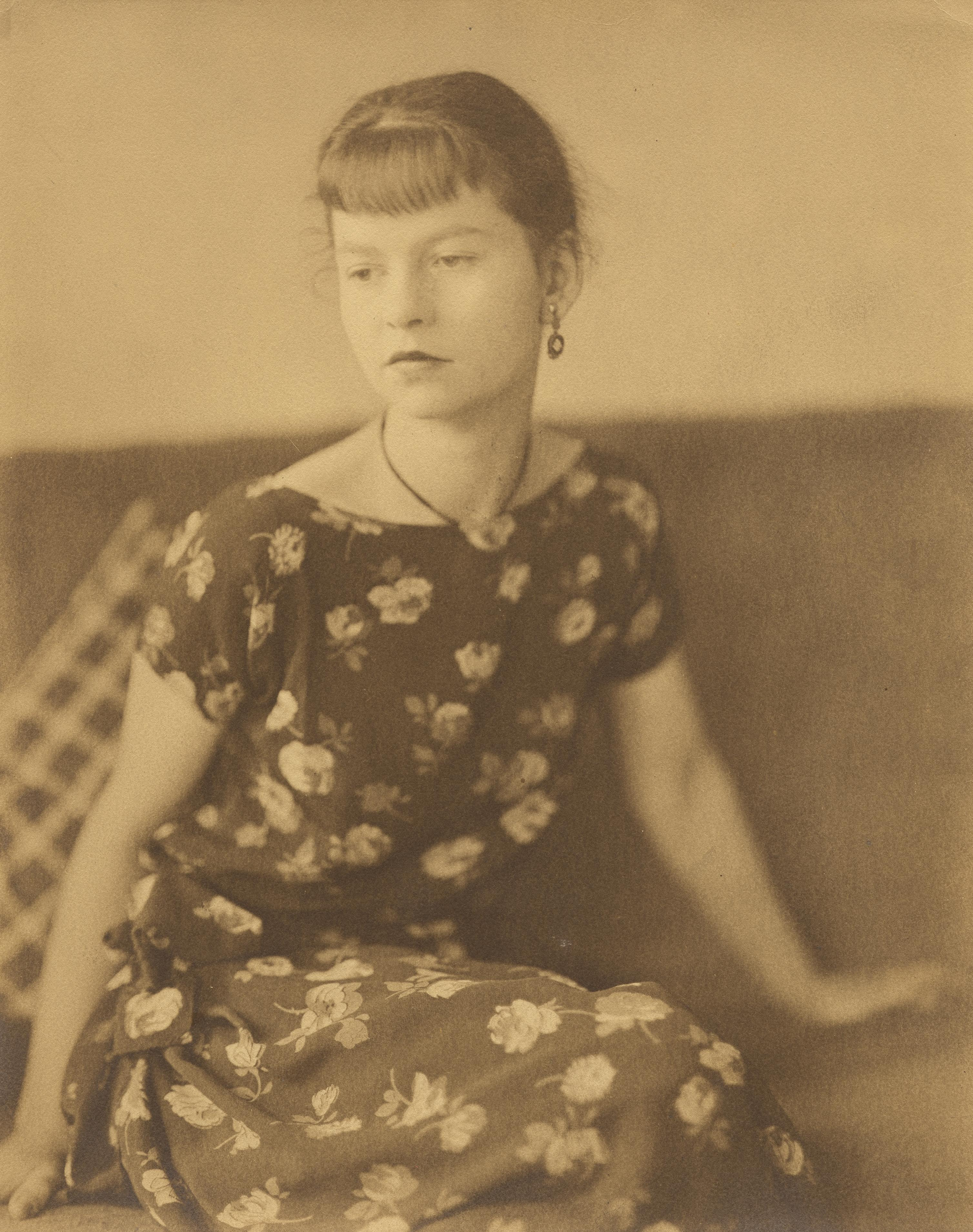 Portrait of artist Katherine Schmidt. Identification on verso (handwritten): Portrait of Katherine Schmidt (Mrs. Yasuo Kuniyoshi) about - 1922 - 1923.